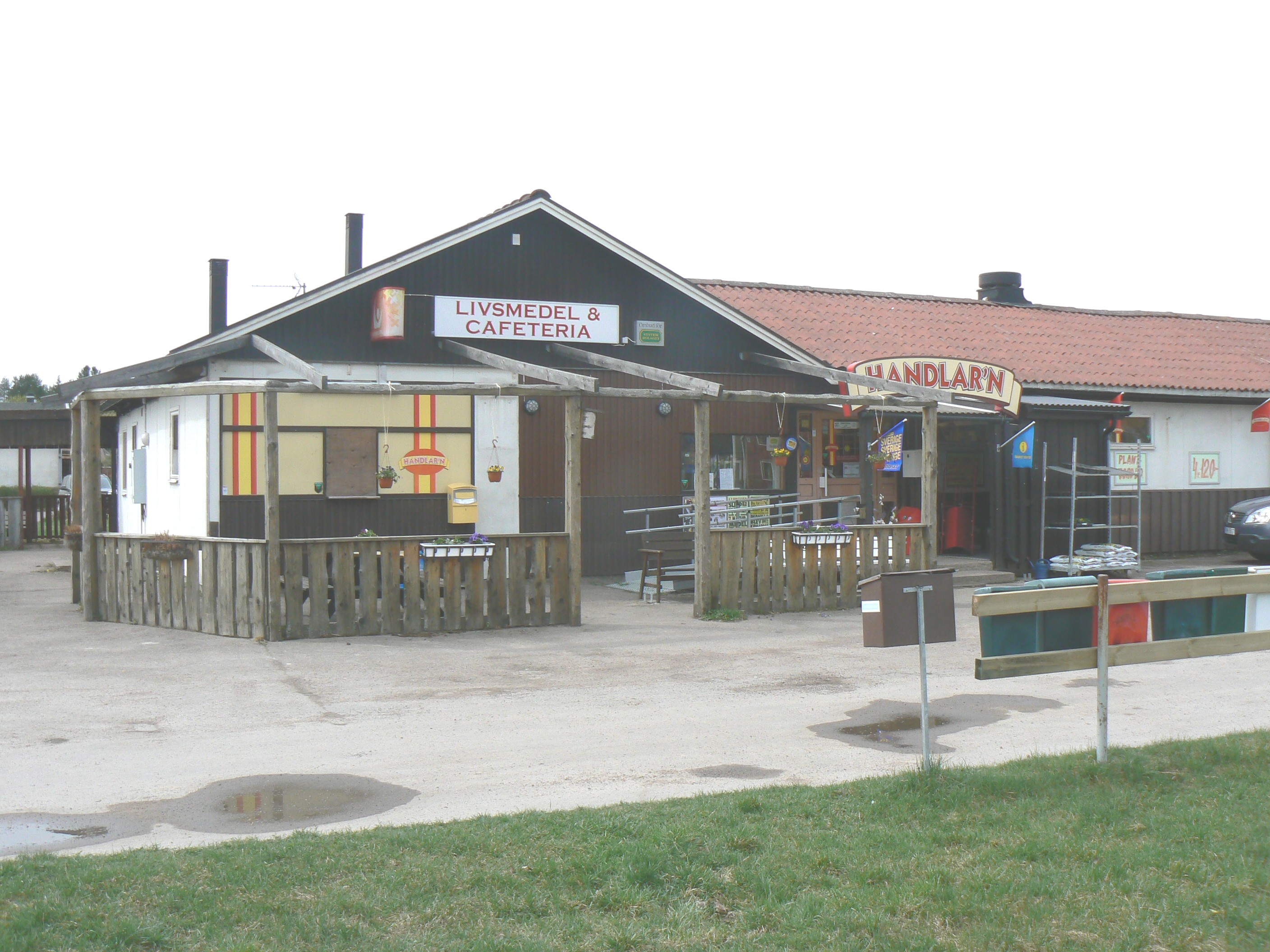 The grocery store (Handlar'n) and cafeteria in Ulrika village in Östergötland, Sweden. (The light/colour balance of this photograph has been slightly adjusted by its creator with Microsoft Photo Editor, for improvement reasons.)